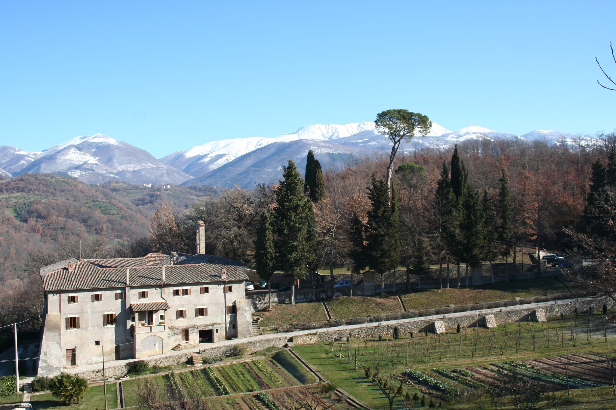 St. Mary of the forest franciscan sanctuary - Rieti (Lazio, Italy) - on the background, Mount Terminillo